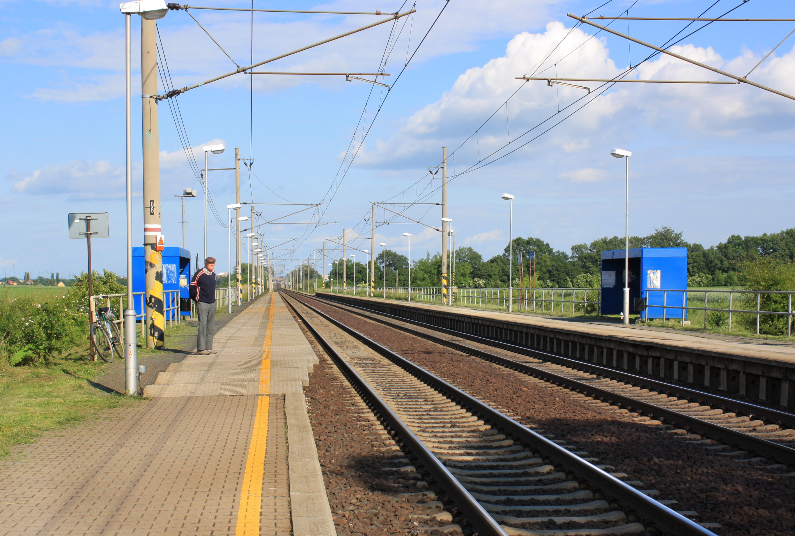 Train stop in Tatce, Czech Republic